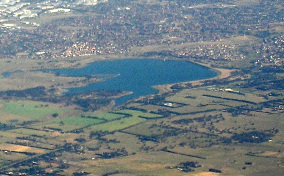 Greenvale Reservoir Victoria from north west aerial photo